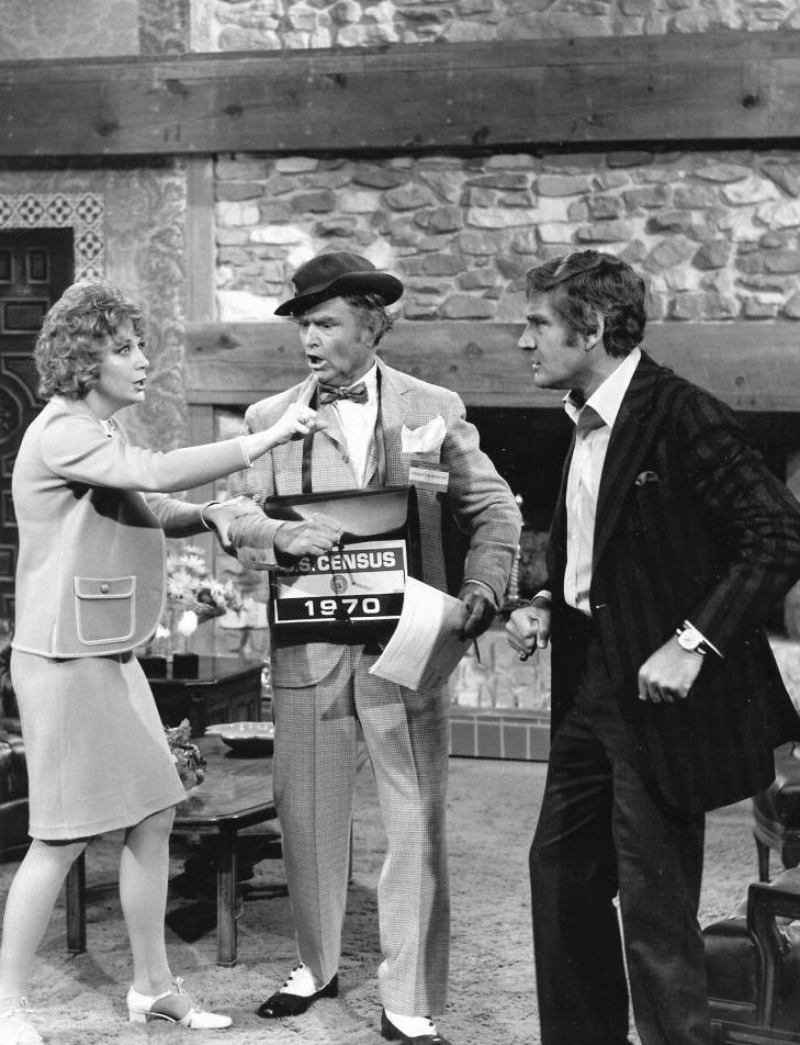 Red Skelton as Clem Kadiddlehopper, Laara Lacey, Gene Barry from Skelton's 1959 television show